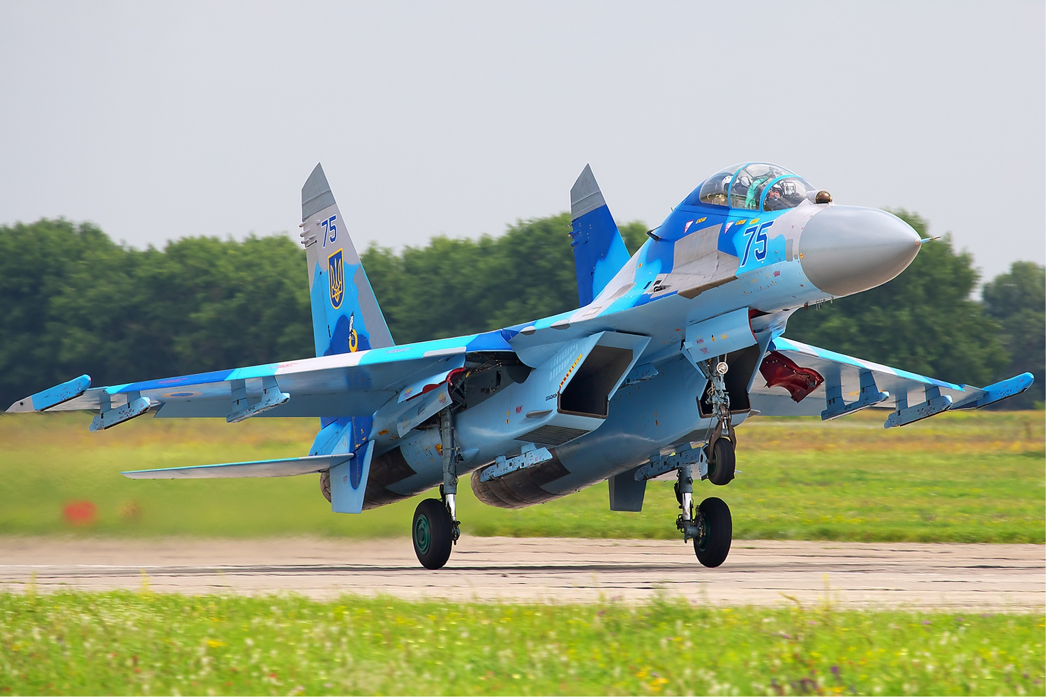 Sukhoi Su-27UB - 75 BLUE (cn 96310418207) The flight of Ukrainian AF Lt. General Vasiliy Nikiforov and Commander of the 187th Fighter Wing of the Alabama National Guard Lt. Colonel Scott Patton (at the rear seat) during the 'Safe Skies-2011', the joint military exercises of Ukrainian, US and Polish air forces.